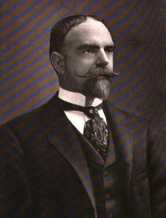 John Murry Mitchell, Congressman from New York